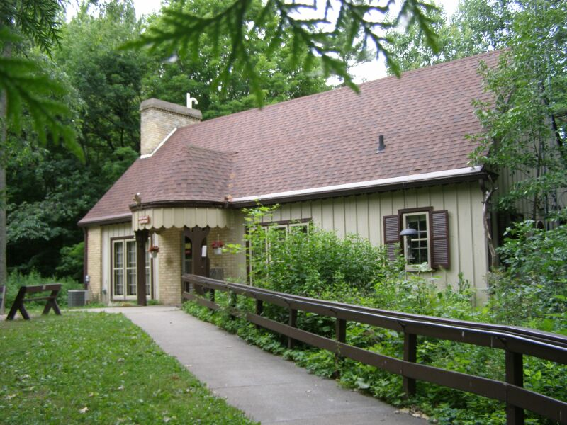 Nature Center at Devil's Lake State Park,Wisconsin